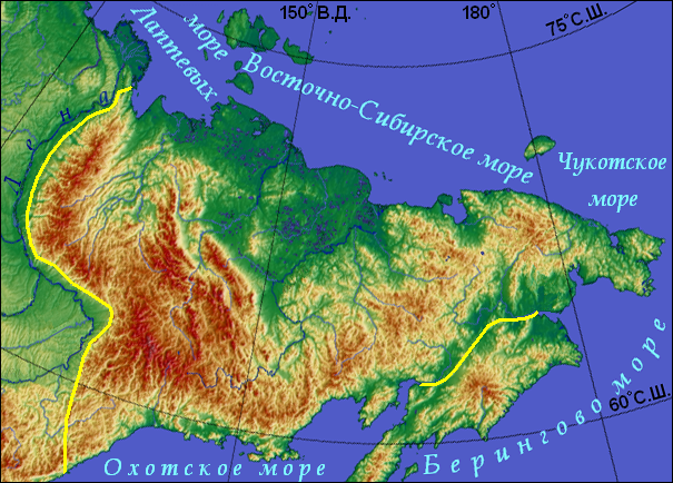 Northeastern Siberia